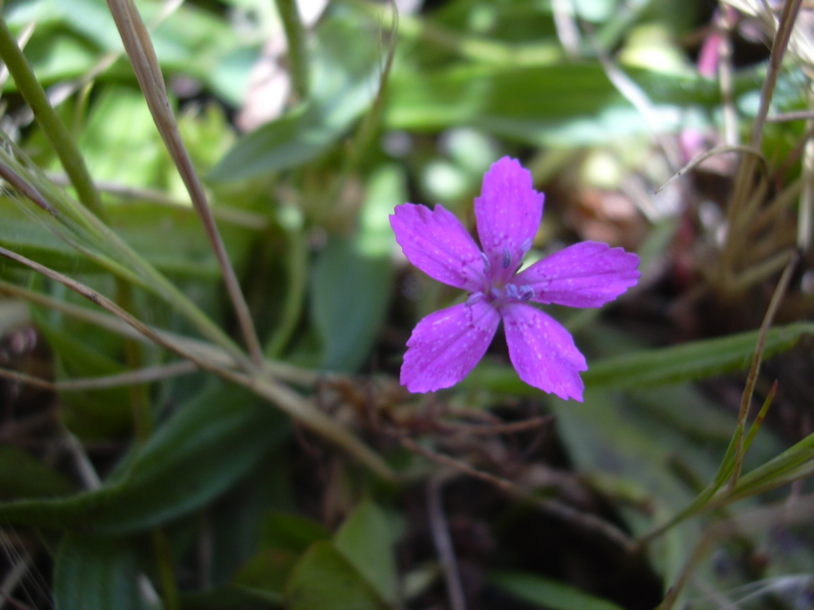 Dianthus armeria (flower). Location: Hawaii, Puu Mali